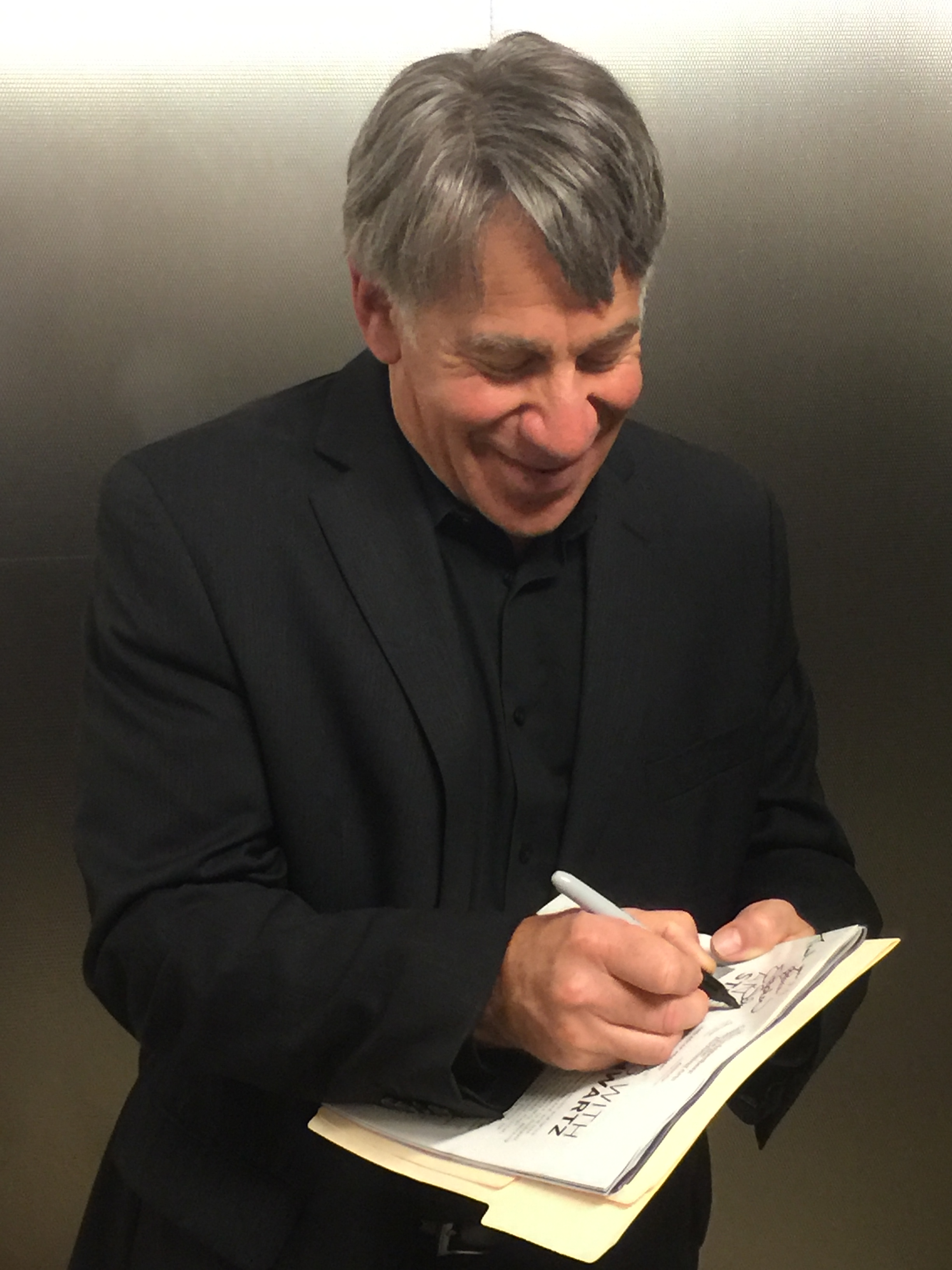 Stephen Schwartz signing autographs